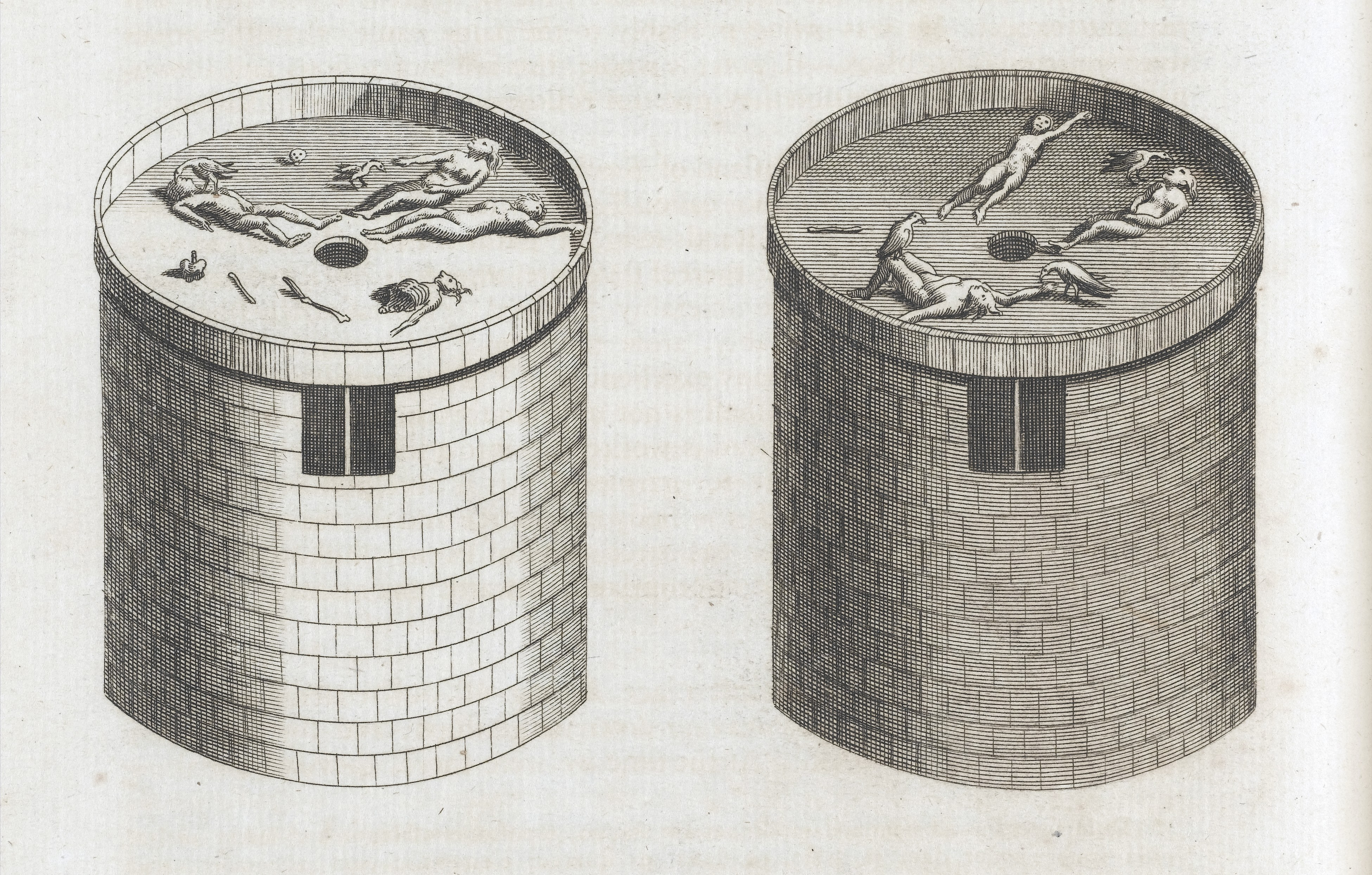 Printed drawing of 'Towers of Silence', two circular raised structures used by Zoroastrians (parsees) to dispose of the dead. Rare Books Keywords: Botany; Plants, Medicinal